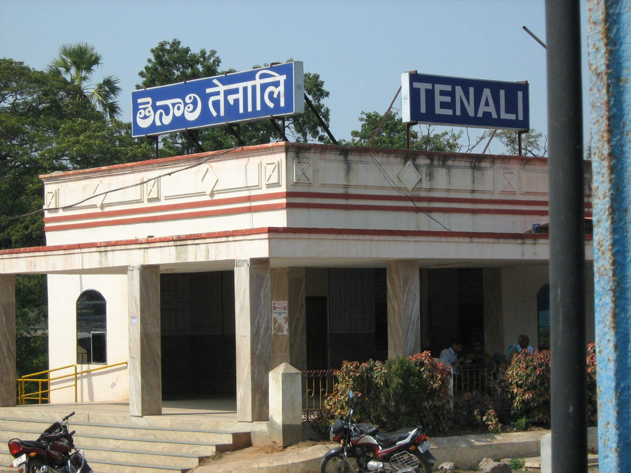 Tenali Railway Station